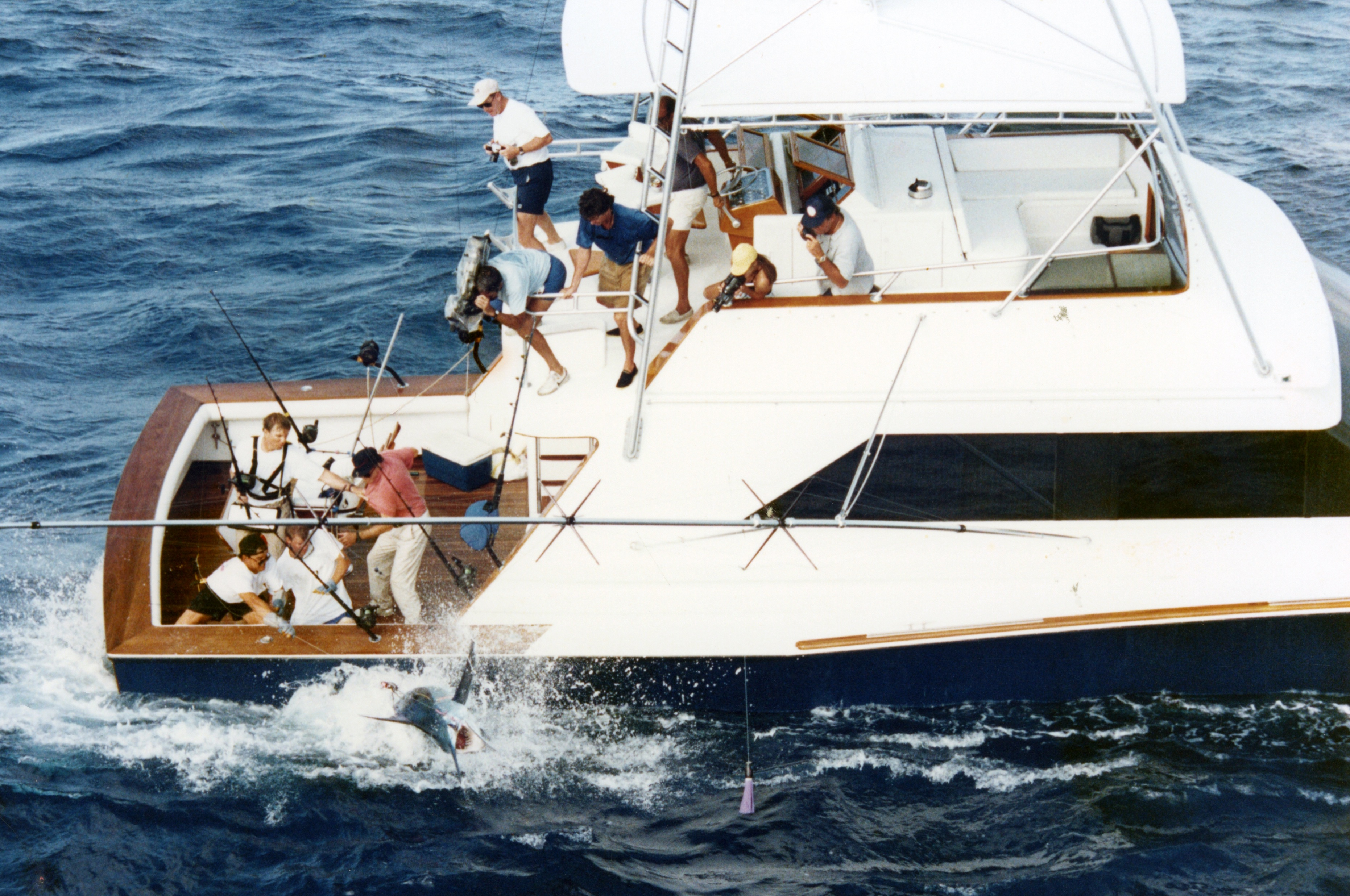 Megabyte ST Thomas Cliff Robertson, Jay McInerney, Hal Prewitt and Marla Hanson